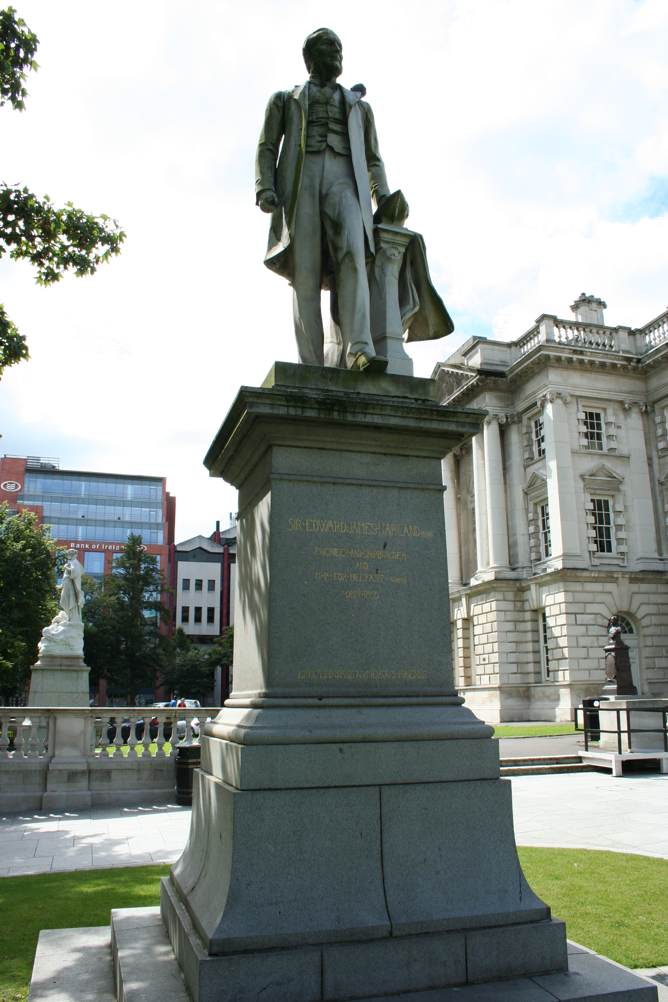 Statue of Edward James Harland in the grounds of City Hall, Belfast Credit: A Peter Clarke image